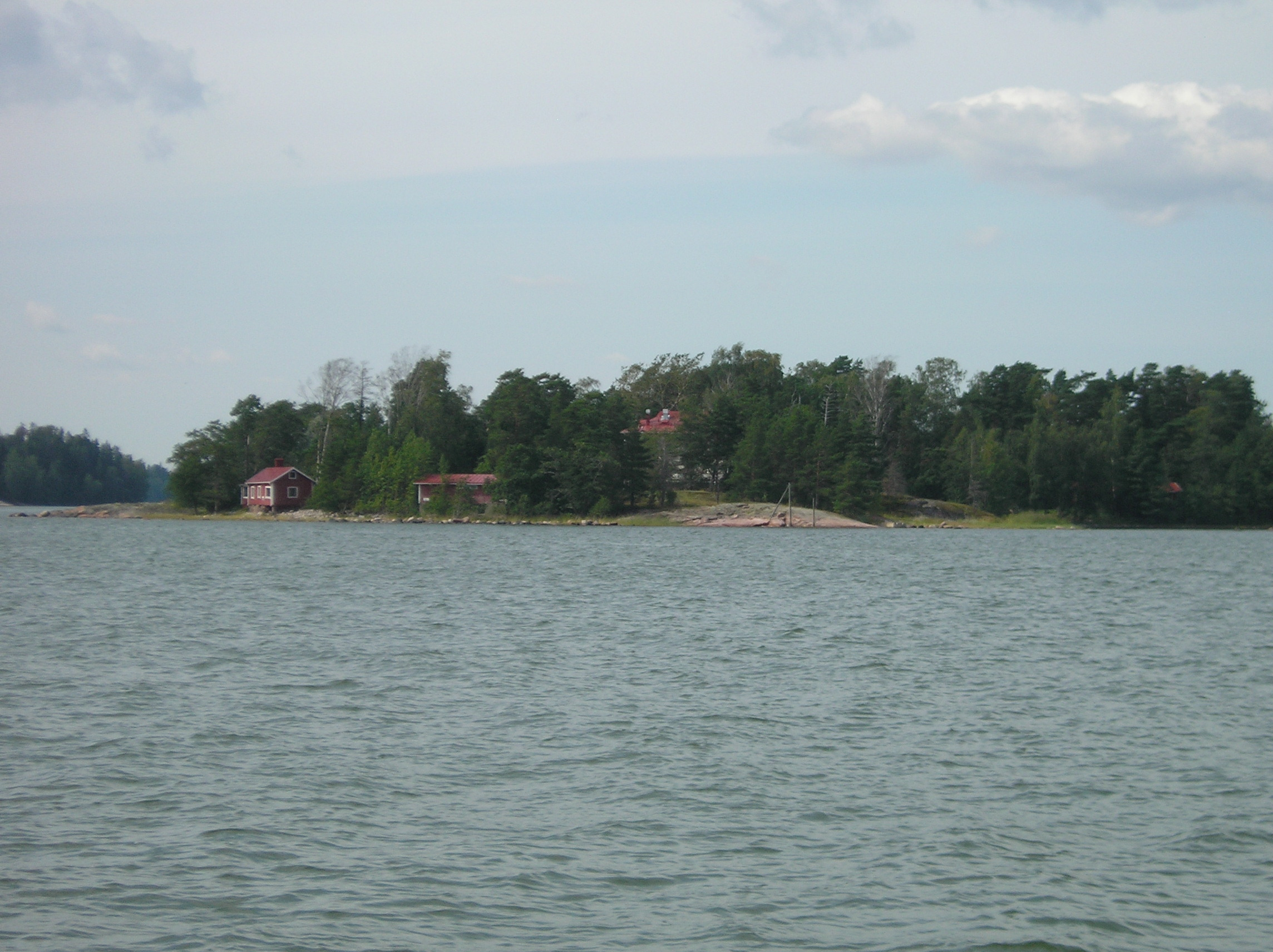 Tiirasaari Island seen from Western Lauttasaari, Helsinki. The island is managed by Tapiola insurance group that has a training center on Tiirasaari.